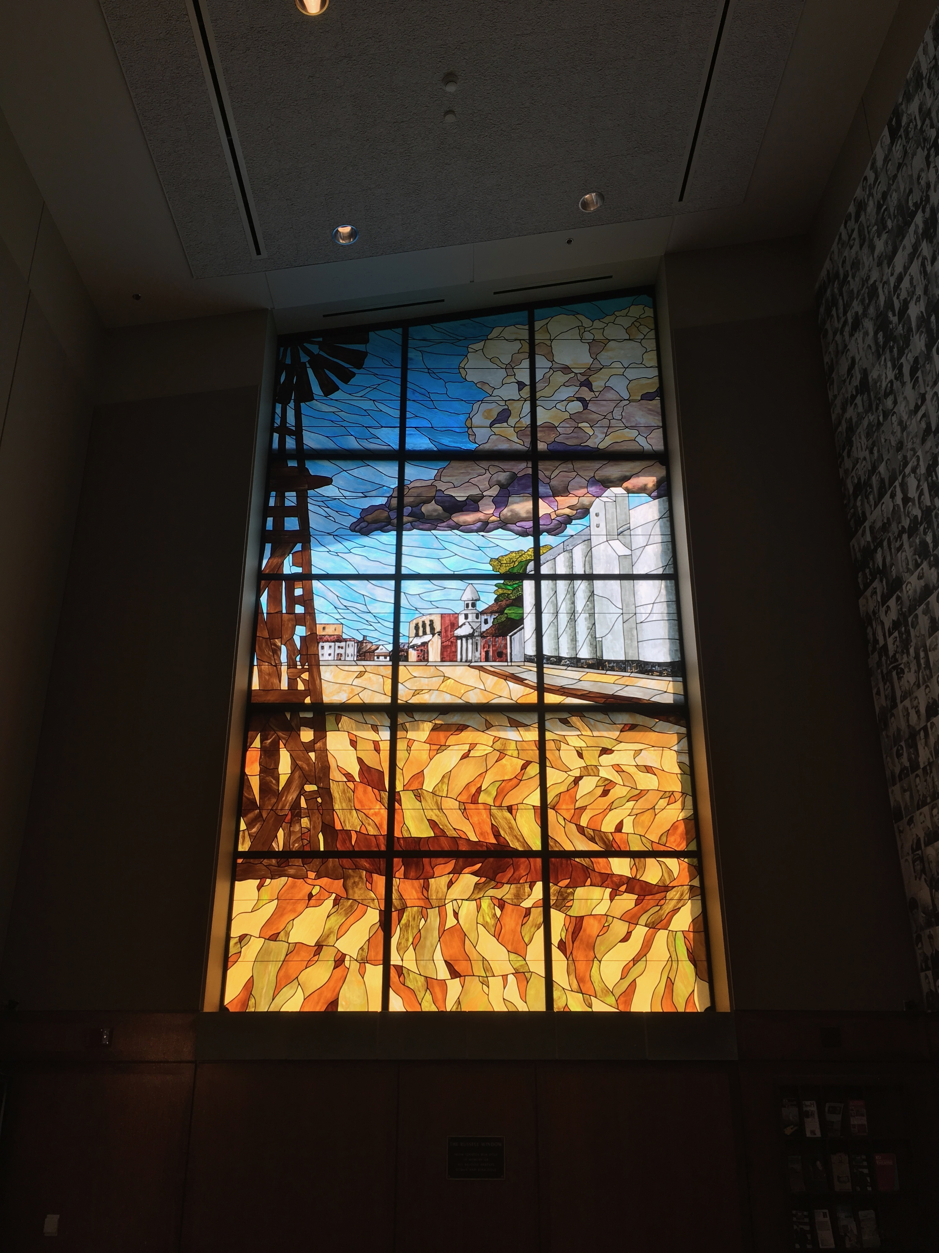 A photograph of the Russell Window at the Dole Institute of Politics.